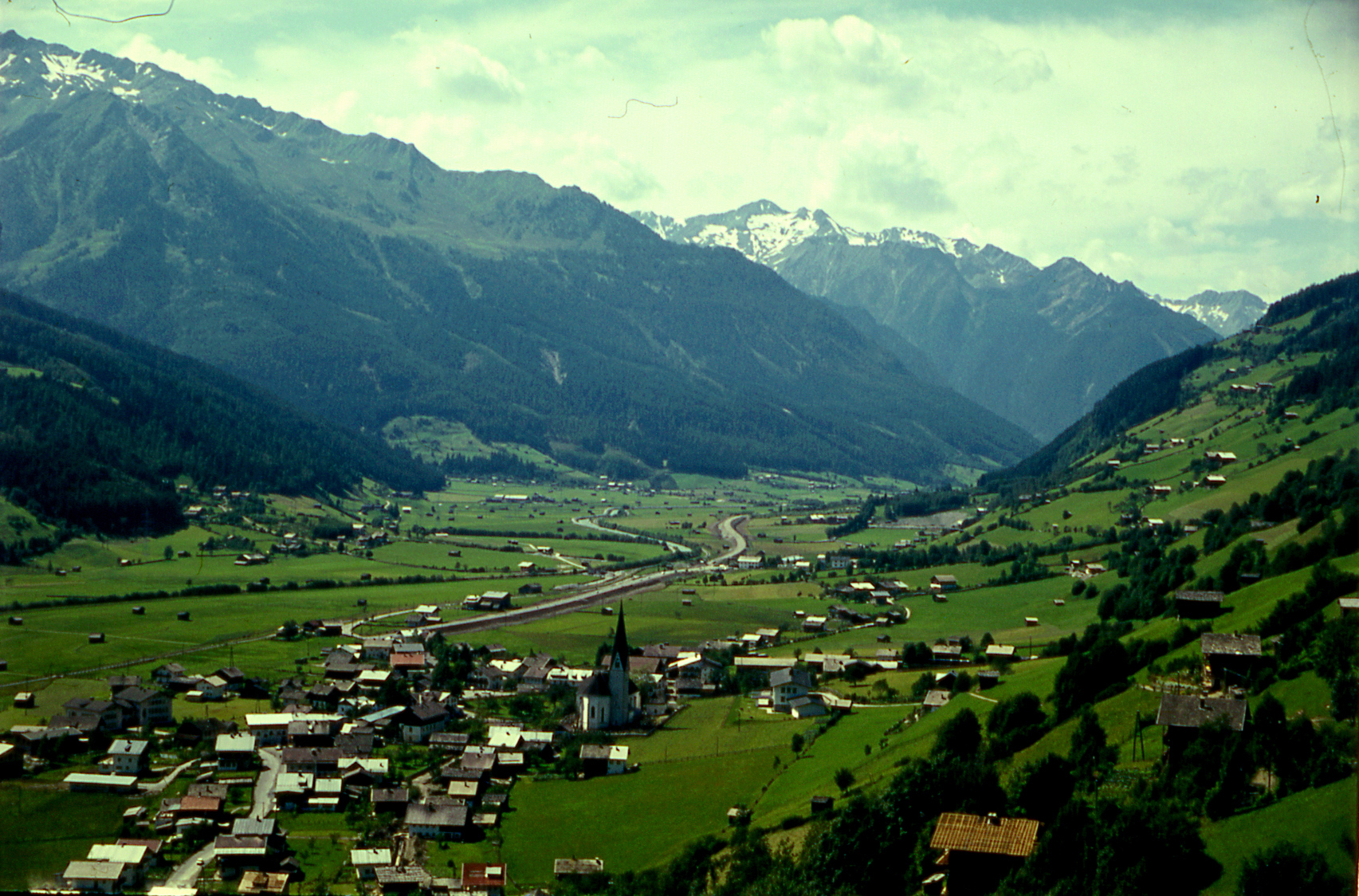 The Salzach valley to the east and Bramberg am Wildkogel (1965)